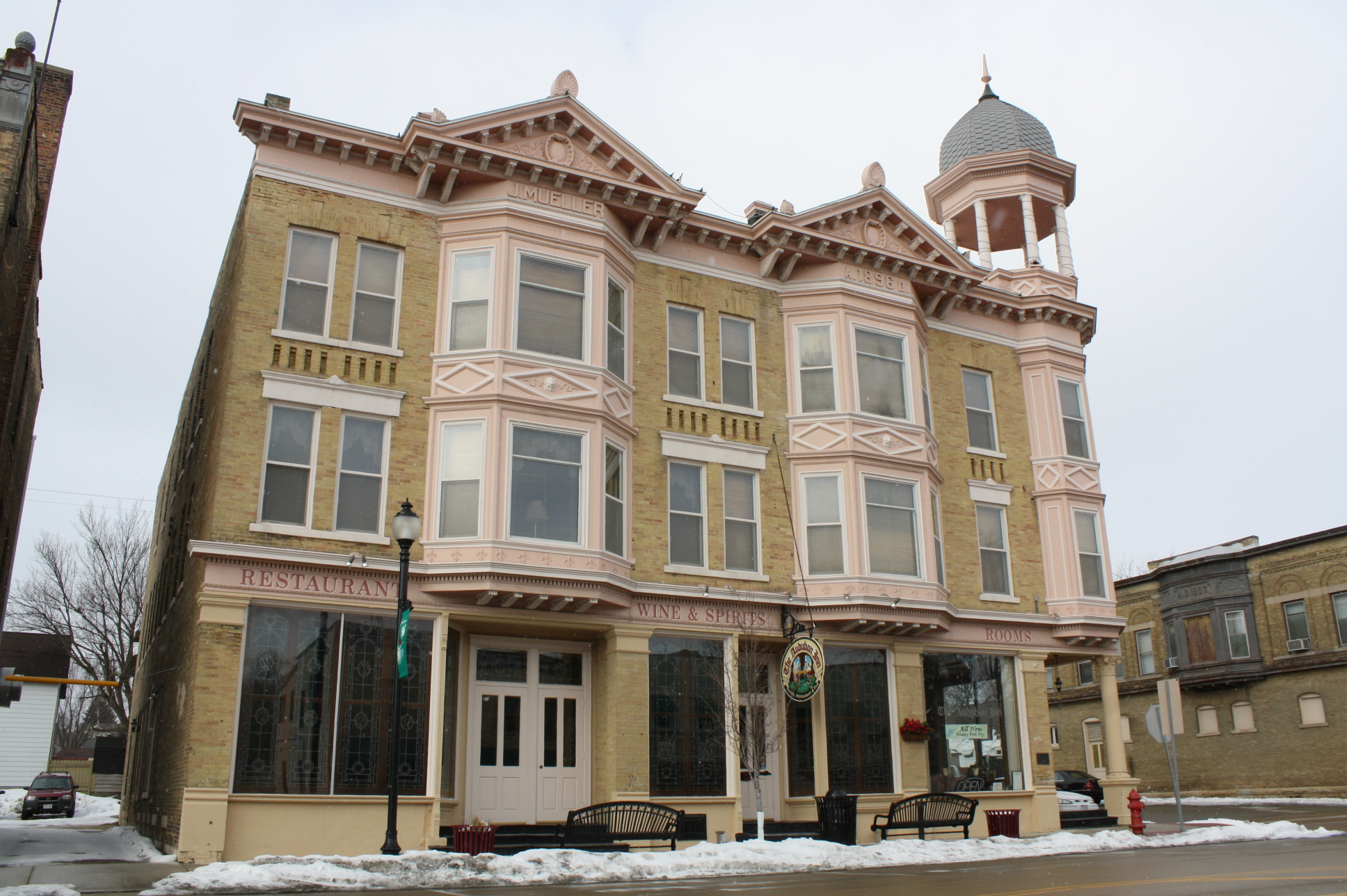 The Beaumont Hotel (Mayville, Wisconsin) in Mayville, Wisconsin along Wisconsin Highway 67 / Wisconsin Highway 28. It is listed on the National Register of Historic Places.